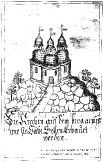 The church at Mount Armes like it should be built. - Un dessin du Mont Armes. Le texte est: Die Kirchen auf dem berg armes wie sie hätte sollen erbauet werden, en français: L'église au Mont Armes comment on a voulu construire elle.